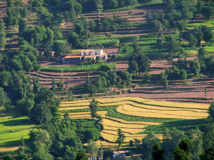 Terrace farming in Kasauli in the Shivalik hills, Himachal Pradesh. The yellow on the roof of the building is actually maize drying.